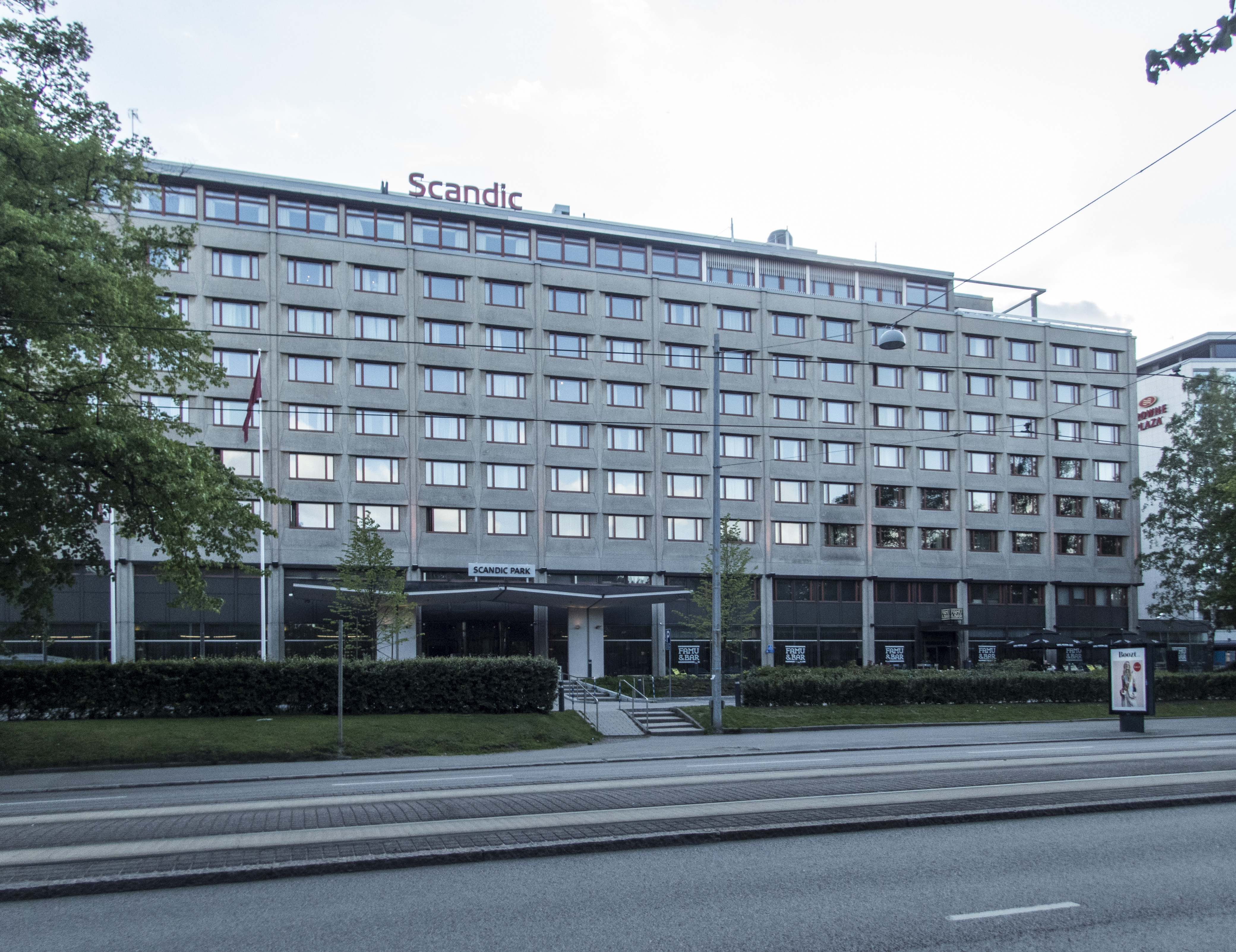 Hotel Scandic Park Helsinki. Built in 1972 as Hotell Intercontinental. Architect: Jouko Ylihannu